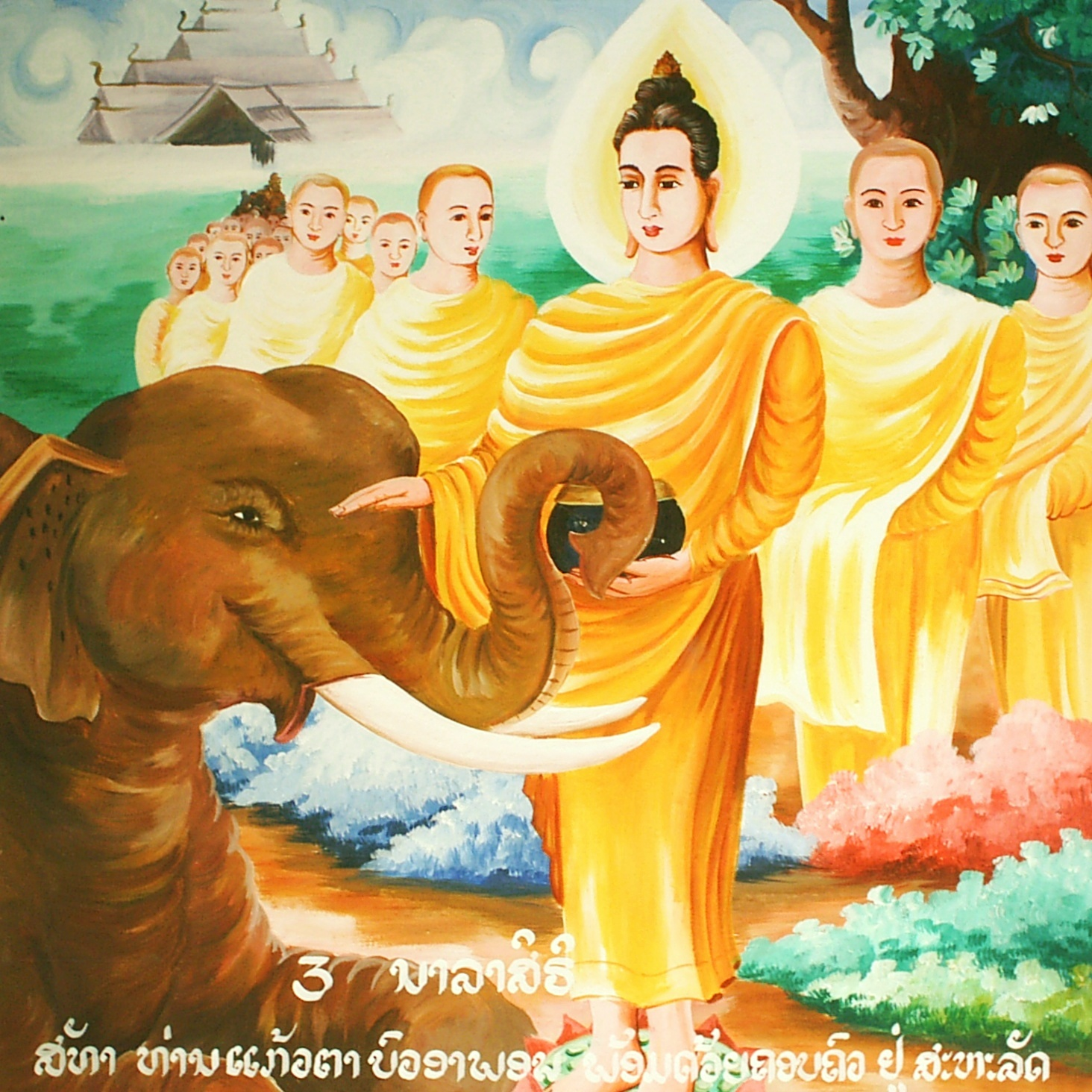 Nalagiri was an elephant with a bad character. Devadatta, cousin of the Buddha who was jealous of Buddha and wanted to kill him, made Nalagirl purposefully very angry and set him loose in the street in which Buddha was walking with many other monks. As Nalagiri, running wildly and trumpeting, came closer to the Buddha, the Buddha mentally directed his loving kindness and friendliness (metta) to Nalagiri, because of which Nalagiri calmed down, and subsequently bowed low before the Buddha as a way of showing respect.